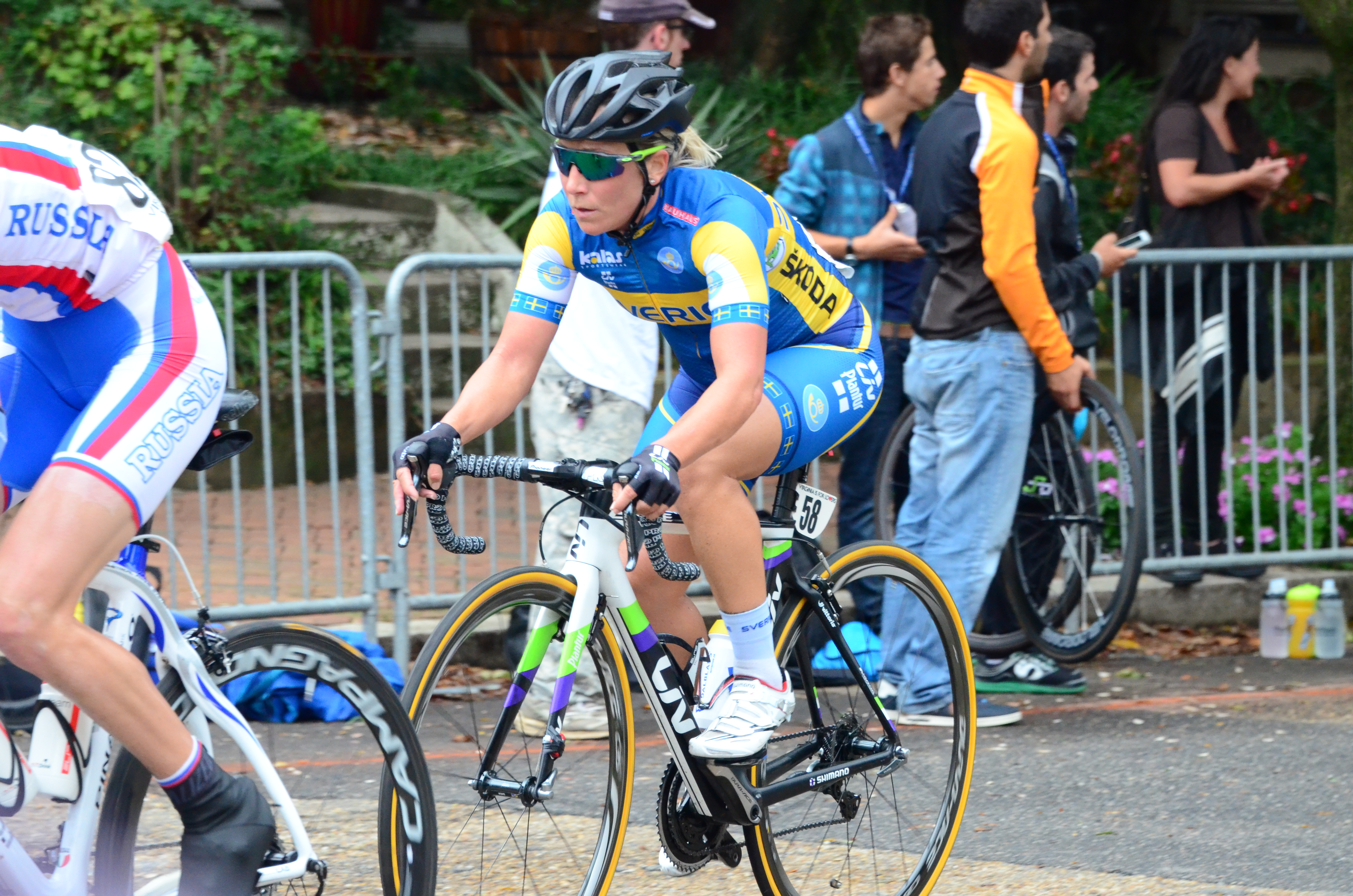 The Women's road race, at the 2015 UCI Road World Championships, in Richmond, Virginia. Sweden's Saara Mustonen.